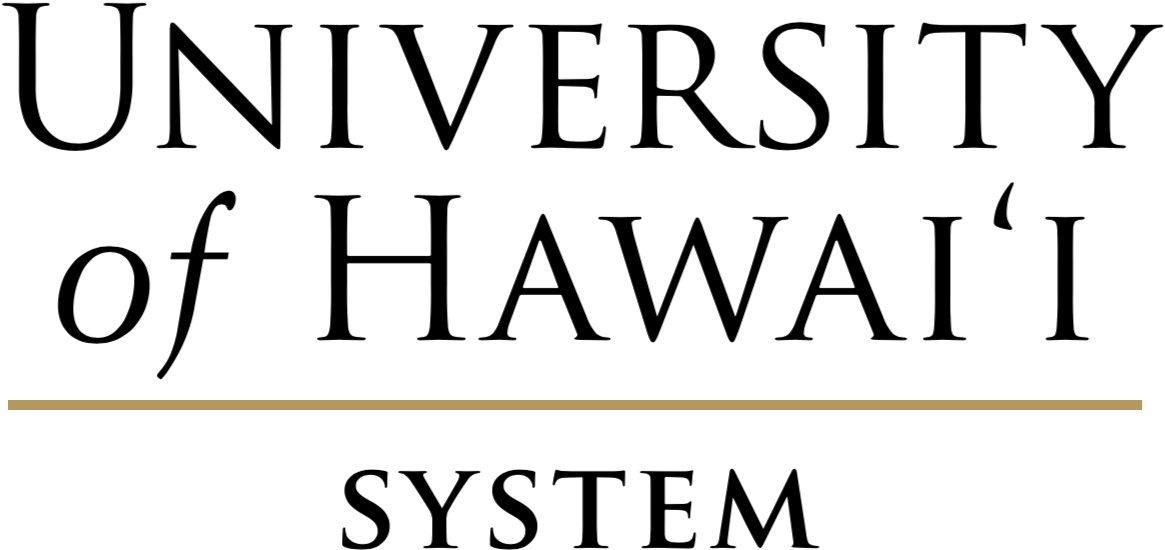 University of Hawaii system logo